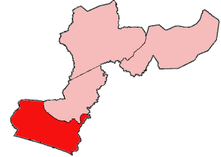 Map of Margibi County, Liberia showing Mambah-Kaba District; created with the GIMP. Made by User:Acntx.